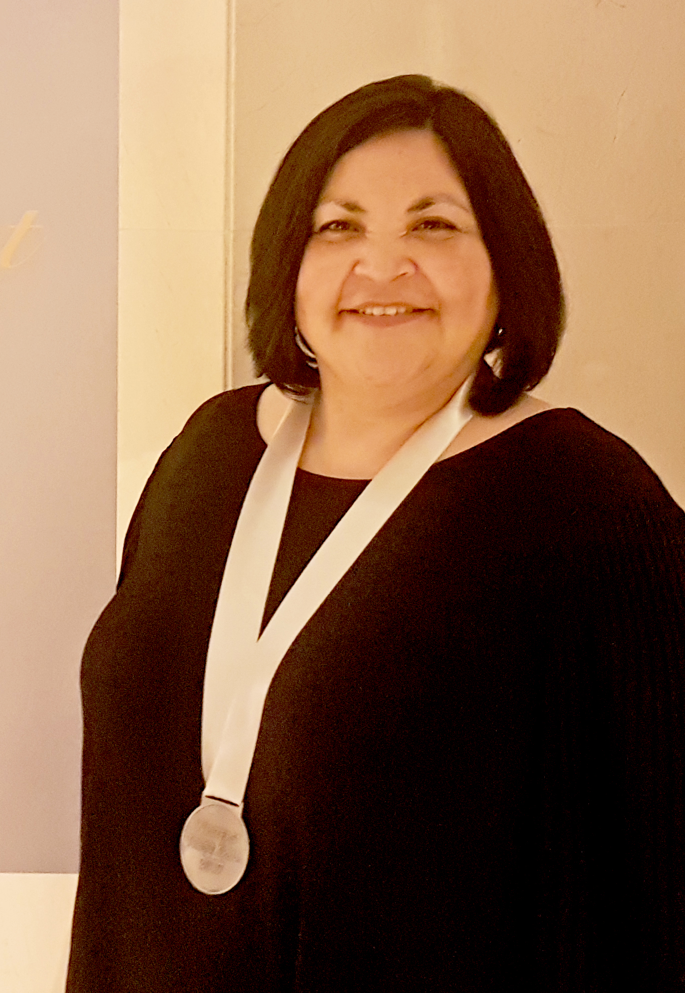 Canadian author Eden Robinson at the Writers' Trust Gala fundraiser in Toronto in November 2017, where she was awarded the $50,000 Writers' Trust Fellowship for her remarkable body of work.